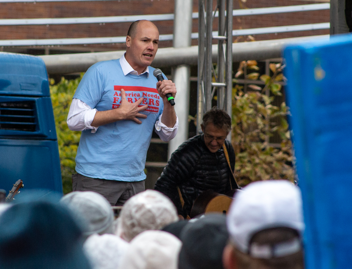 Candidate for Congress JD Scholten speaks at a rally for South Bend Mayor Pete Buttigieg before the Iowa Democratic Party's 2019 Liberty and Justice Celebration in Des Moines.